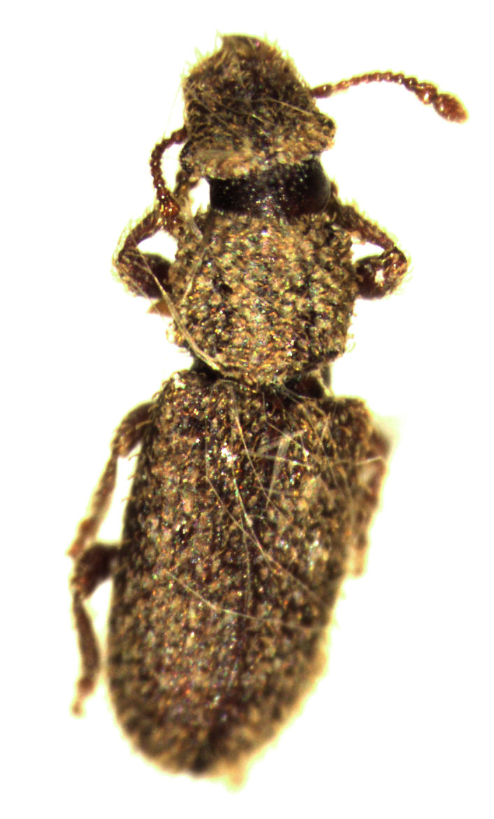 adult Aralius wollastoni (probably female), length about 2.6 mm